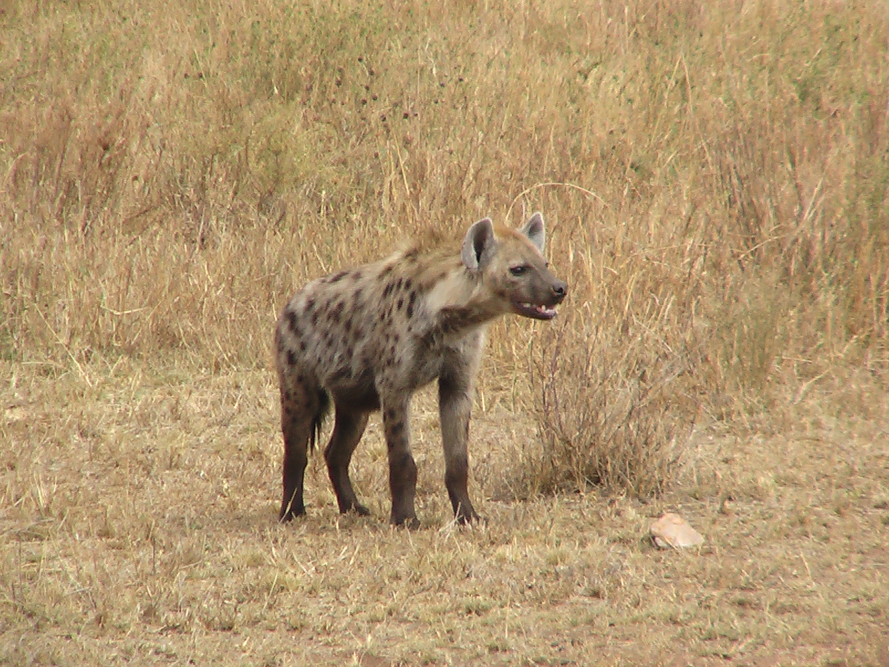 Spotted Hyena